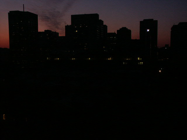 Toronto skyline during the 2003 Northeast blackout. Photographer: Camerafiend